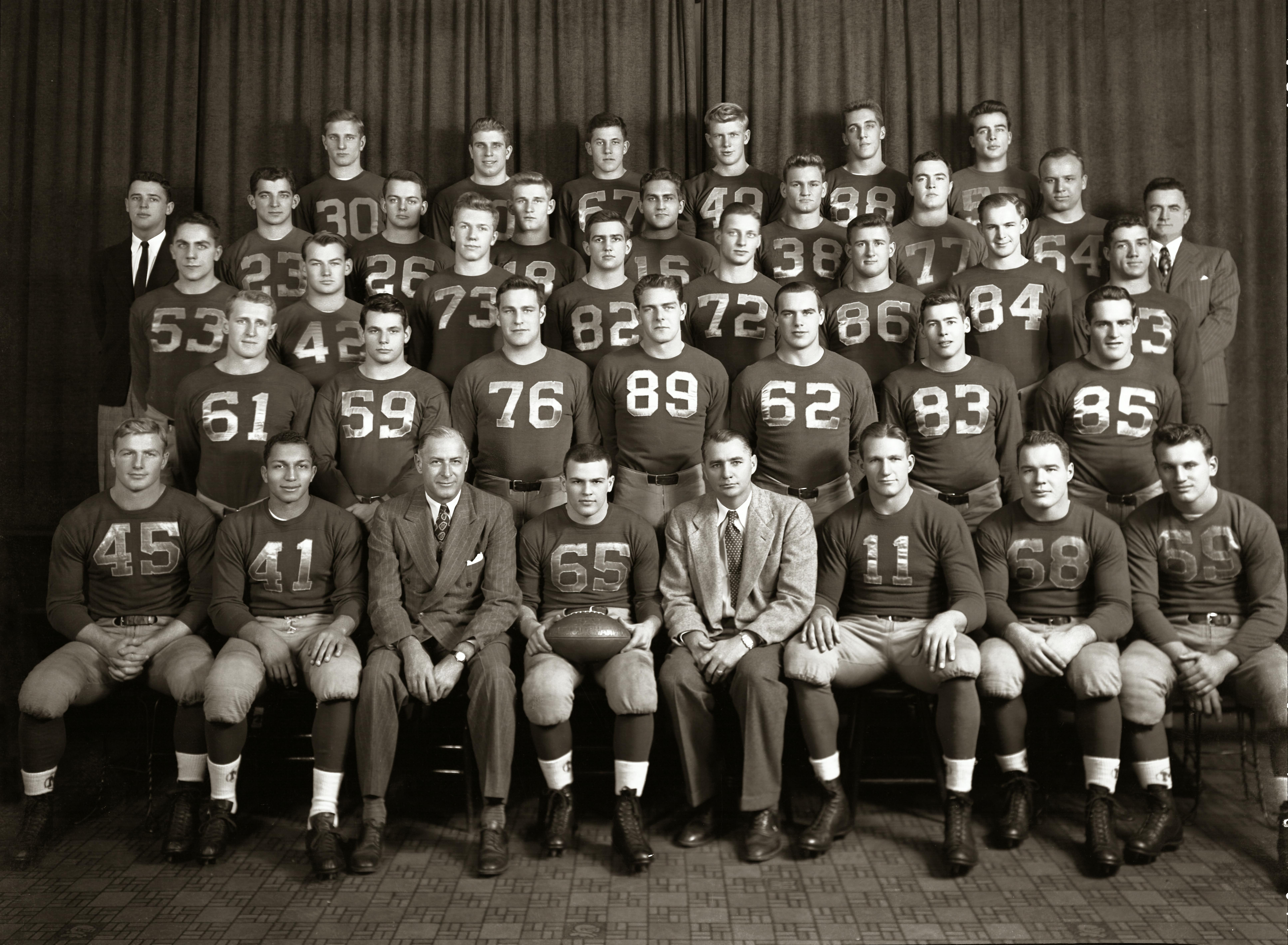 Photograph of 1948 Michigan Wolverines football team